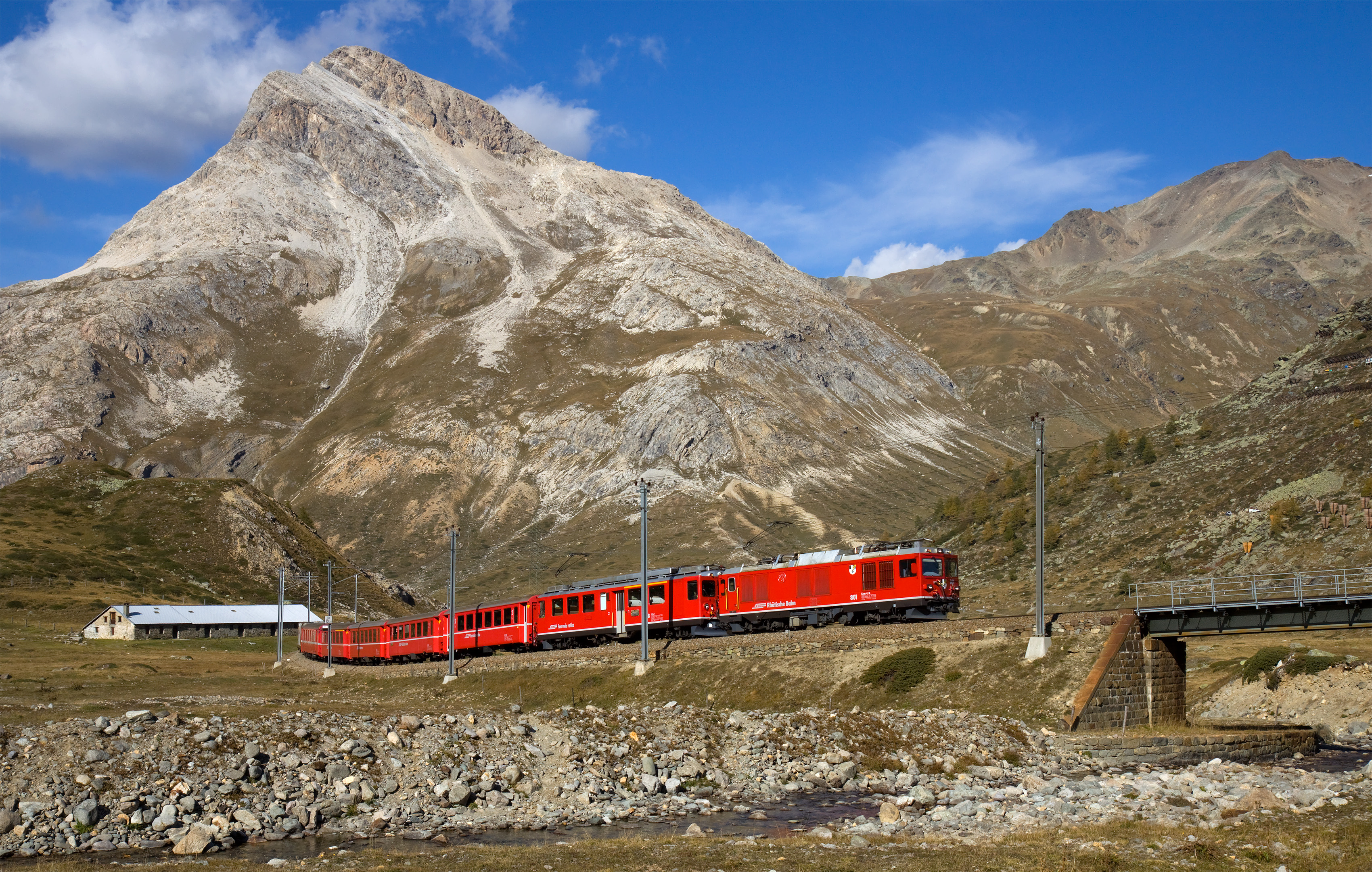 Dual-mode (diesel and electric) locomotive Gem 4/4 together with an ABe 4/4 II EMU pulling a local train to Tirano on the grade to Ospizio Bernina.